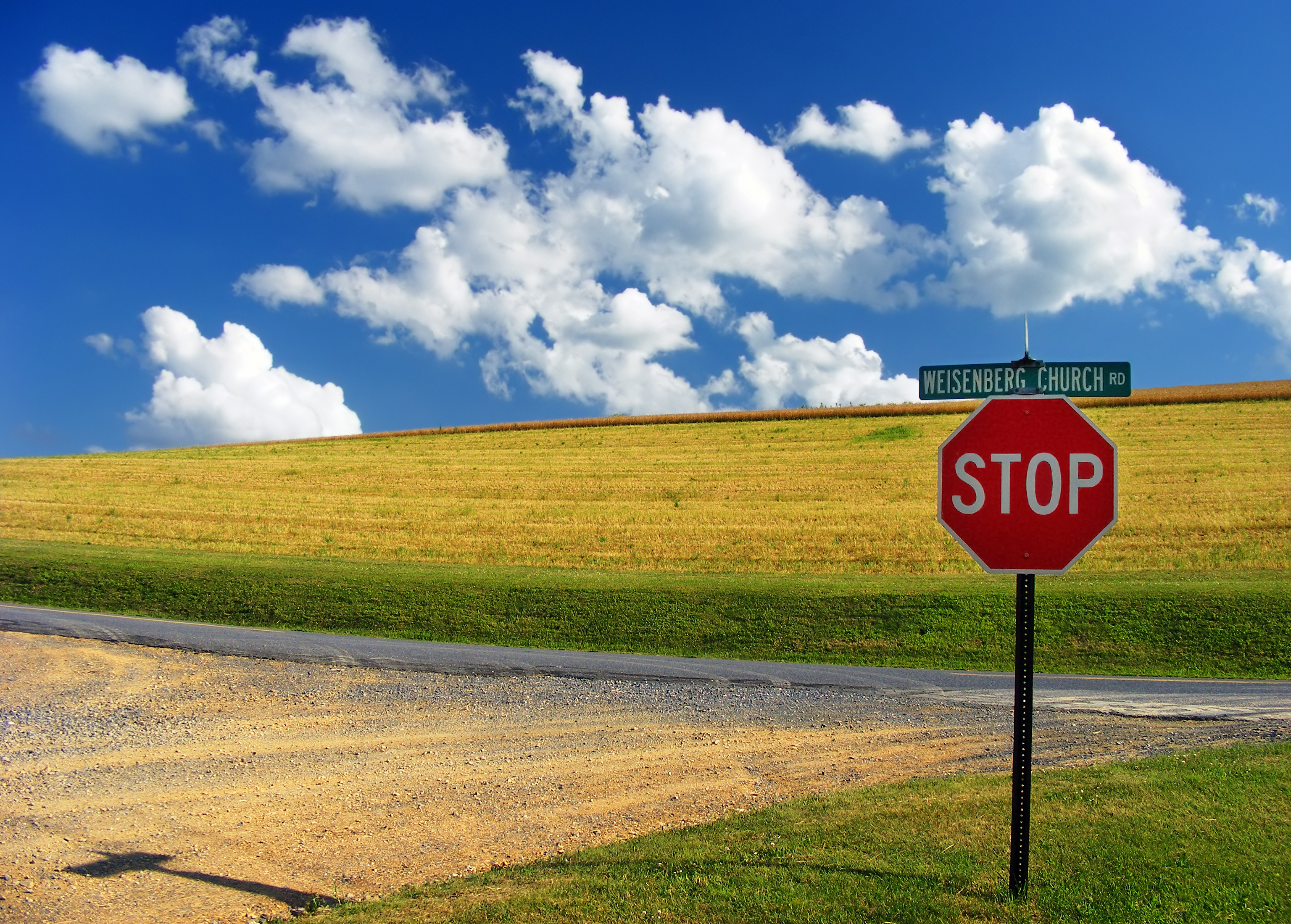 Weisenberg Church Road in Lowhill Township, Lehigh County, Pennsylvania